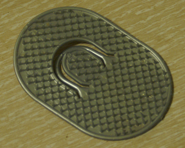 a pocket comb (it goes against the palm of the hand, with a finger through the loop)